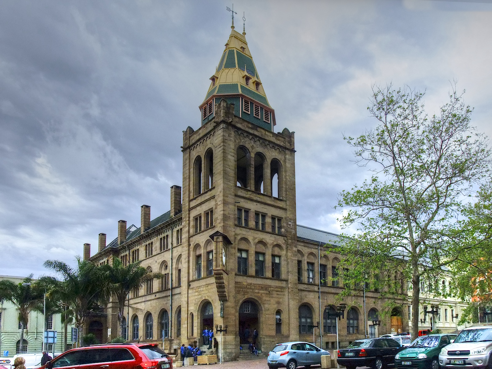 Old Post Office, Court Street, Port Elizabeth This media shows a South African Protected Site with SAHRA file reference 9/2/073/0019.